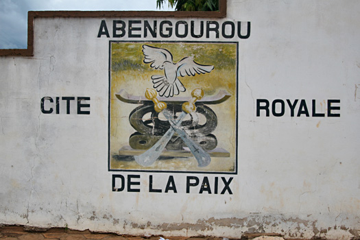 Mural on the walls surrounding the city hall of Abengourou, which says "Abengourou, royal city of peace"